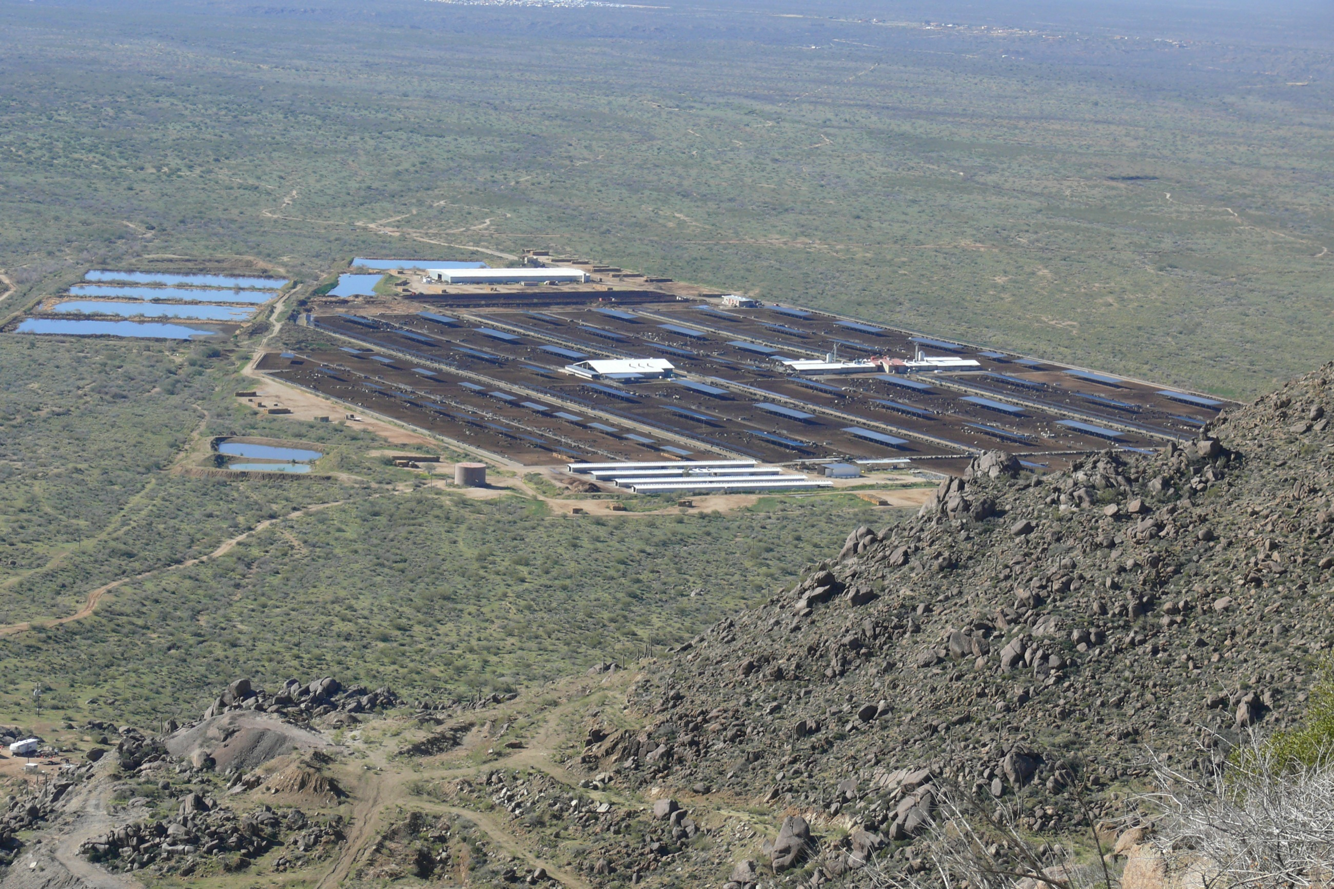 Looking down on Parker Dairy from Hwy. 89 three miles south of Yarnell, AZ